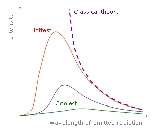 Blackbody radiation graph, together with previous classical prediction Created by Enoch Lau. As a courtesy, please let me know if you alter this image or this image description page. Vector version created